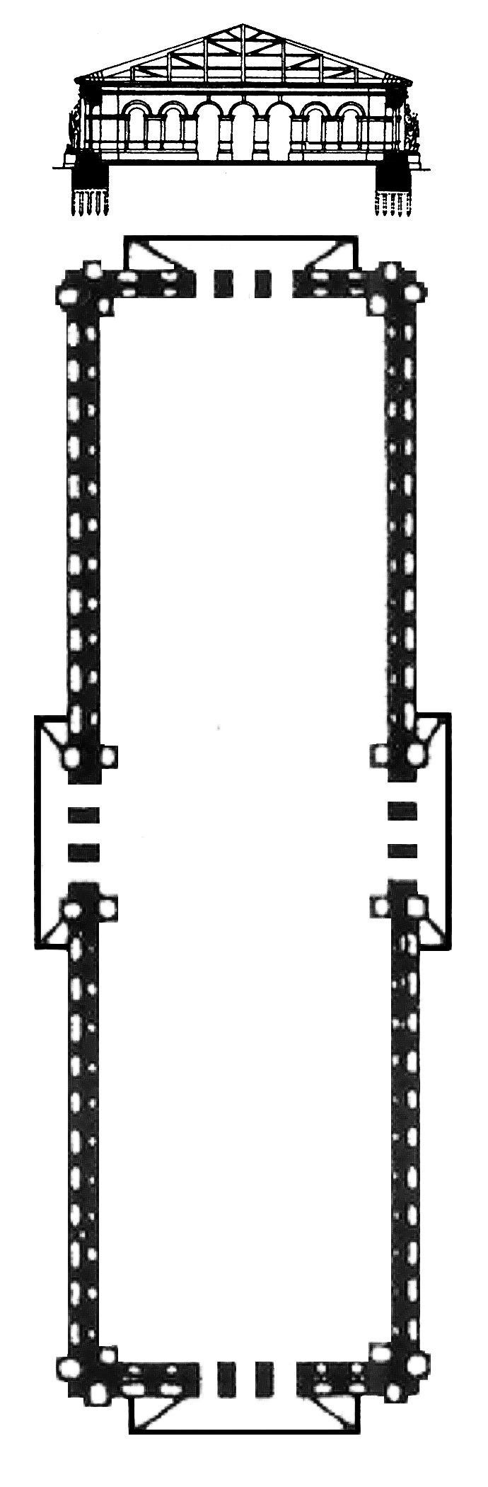 Plan of Moscow Manege